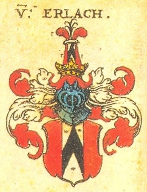 Coat of arms of the Erlach family (of Berne)